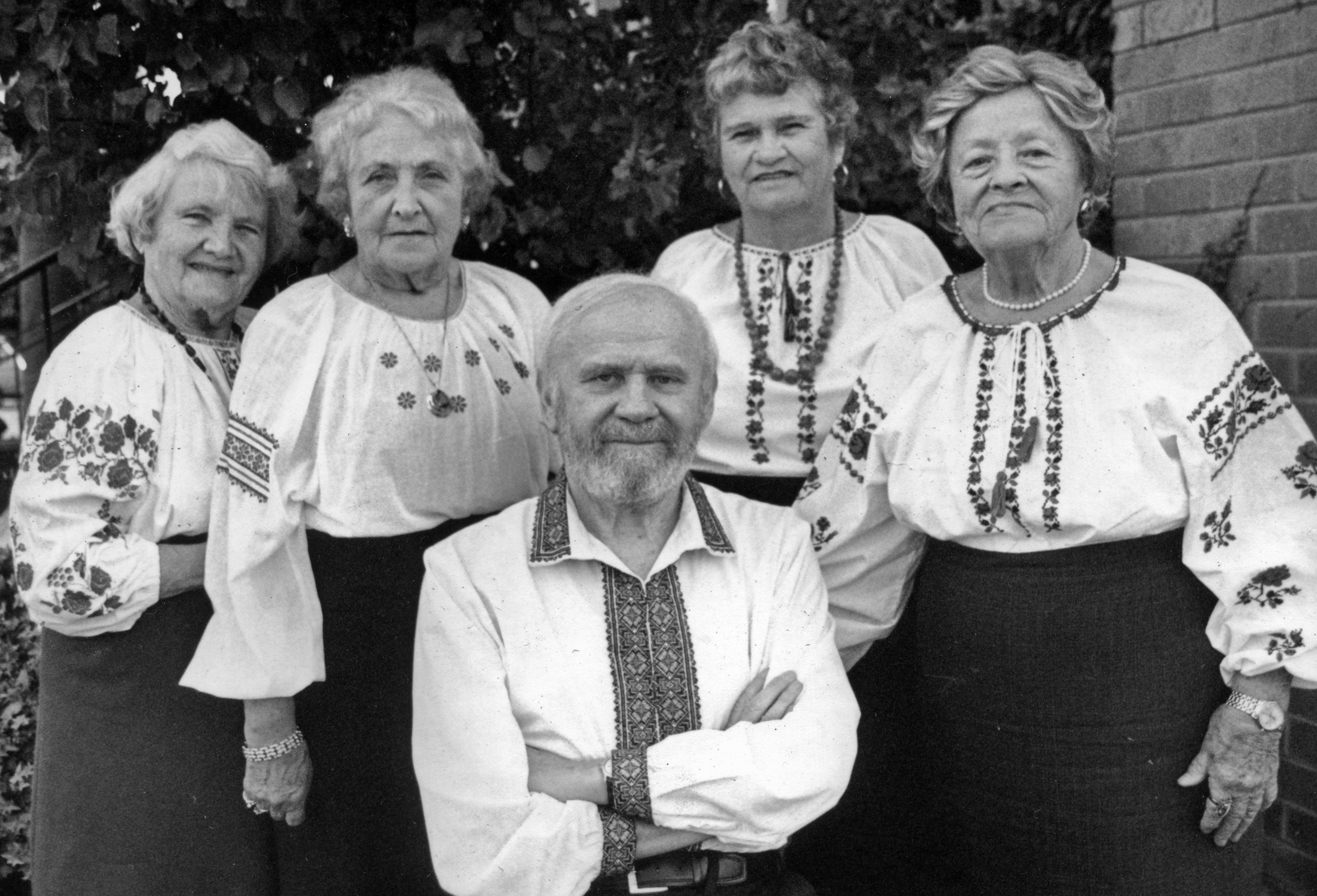 Meeting of the Editorial board of the magazine "Наше Слово" (Nashe Slovo — or "Our Word"), the official mouthpiece of the Ukrainian Women's Association of Australia. Pictured from left to right: Walentyna Kravchenko (Валентина Кравченко), Lidia Korzceniwsky (Лідія Корженівська), graphic artist for the magazine Leonid Denysenko (Леонід Денисенко), Domna Daciw (Домна Даців), and chief-editor Liudmyla Sarakula (Людмила Саракула).